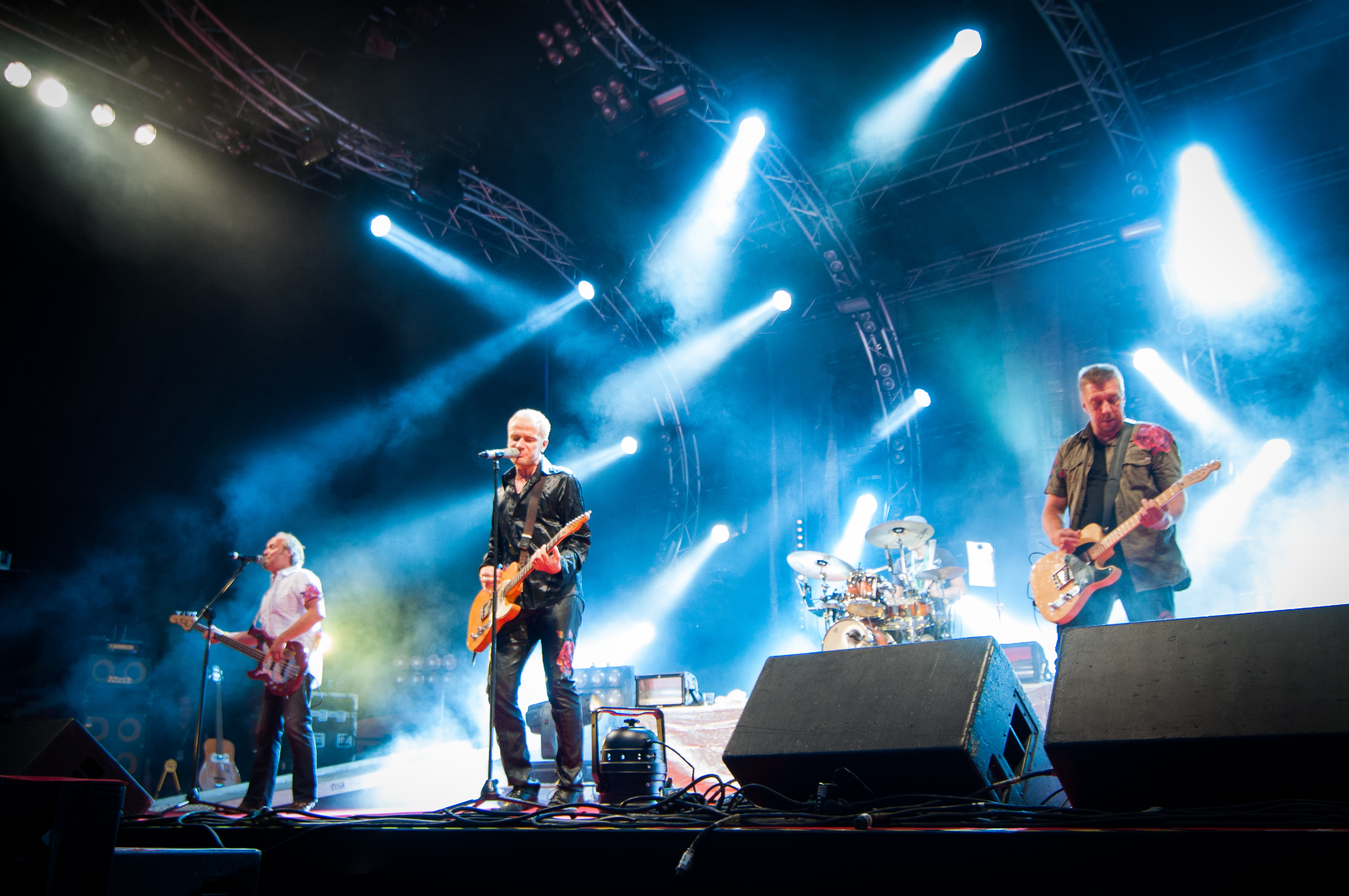 Finnish rock band Neljä Ruusua performing at the 2011 Ilosaarirock Festival in Joensuu, Finland.